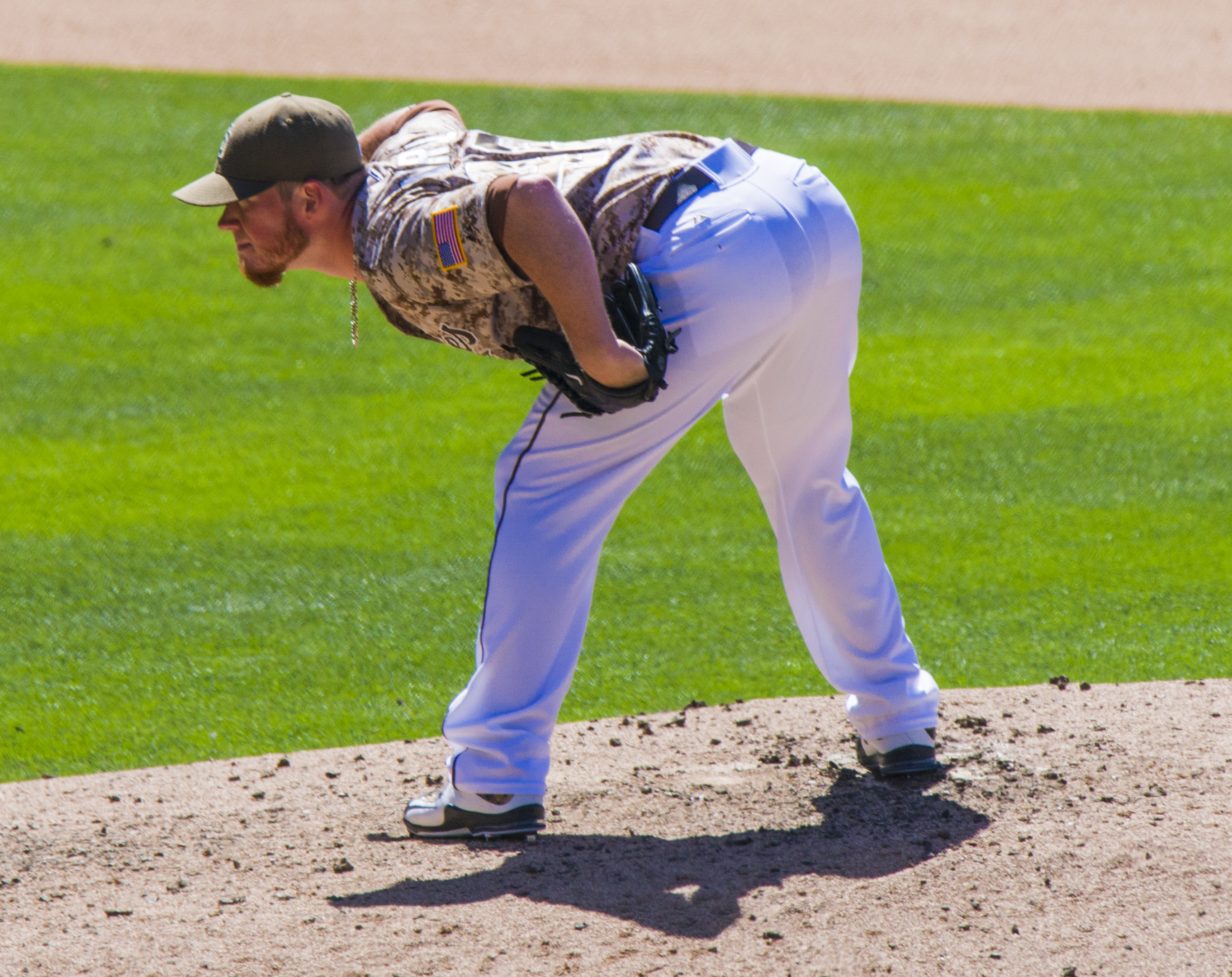 Craig Kimbrel pitching for the San Diego Padres on July 26th, 2015